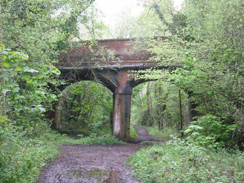 Sprat and Winkle line route near Fullerton. Now a footpath called the Test Way.